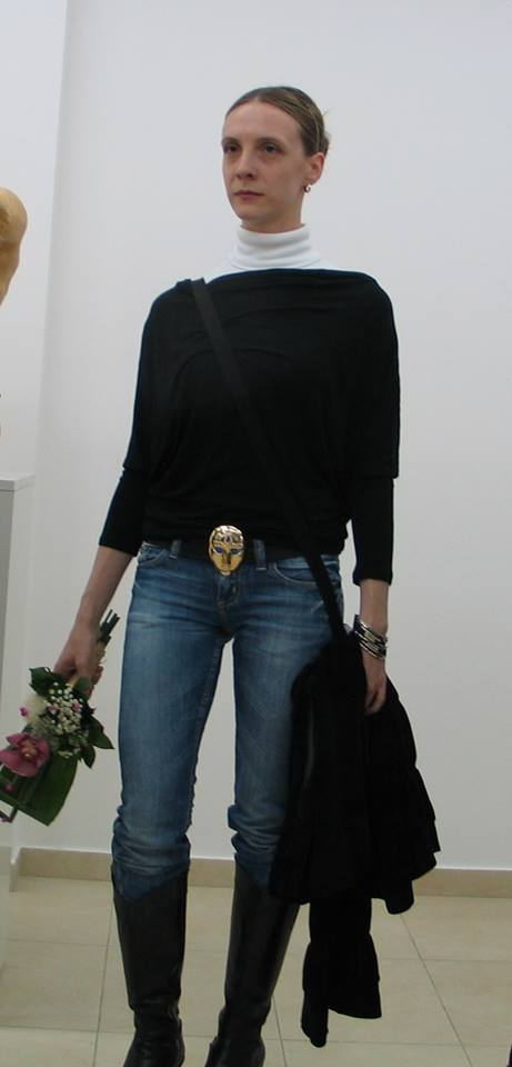 Vladislava Krstić, Serbian sculptor, Belgrad, Serbia, Niš 18.9.2013